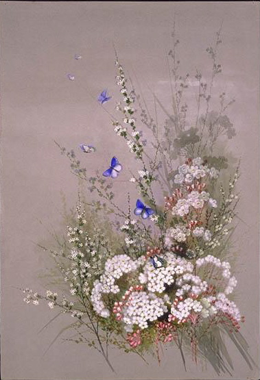 Illustration of Verticordia habrantha described at [1] as 1 watercolour ; 55 x 38 cm Title from inscription on reverse. Signed l.r. Ellis Rowan Australian Collection 275/500. R2227.